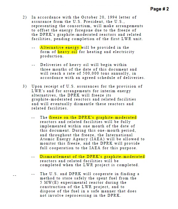 Agreed Framework 1994 Cover Page with highlight of keywords